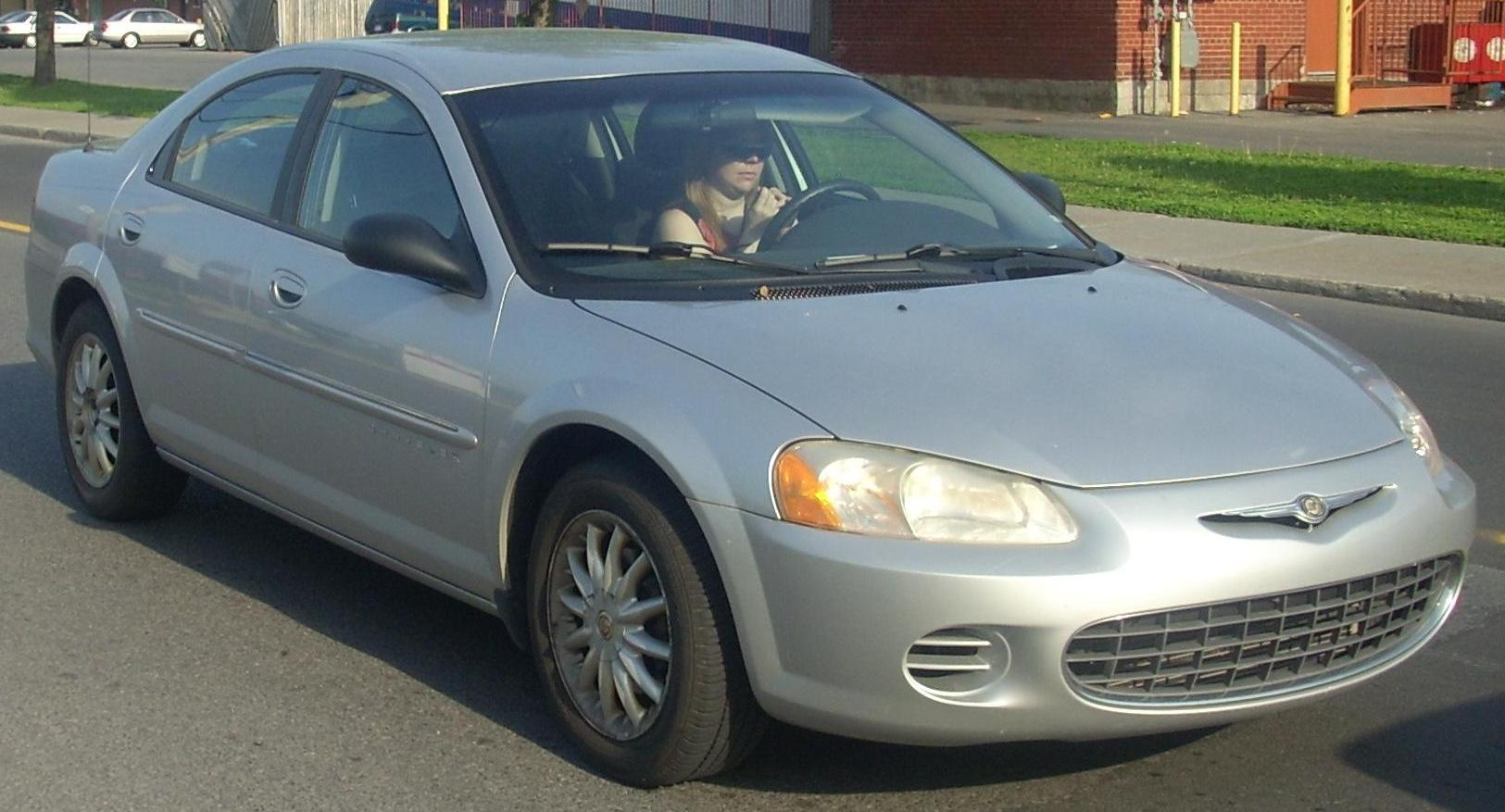 2001 Chrysler Sebring photographed in Dorval, Quebec, Canada.